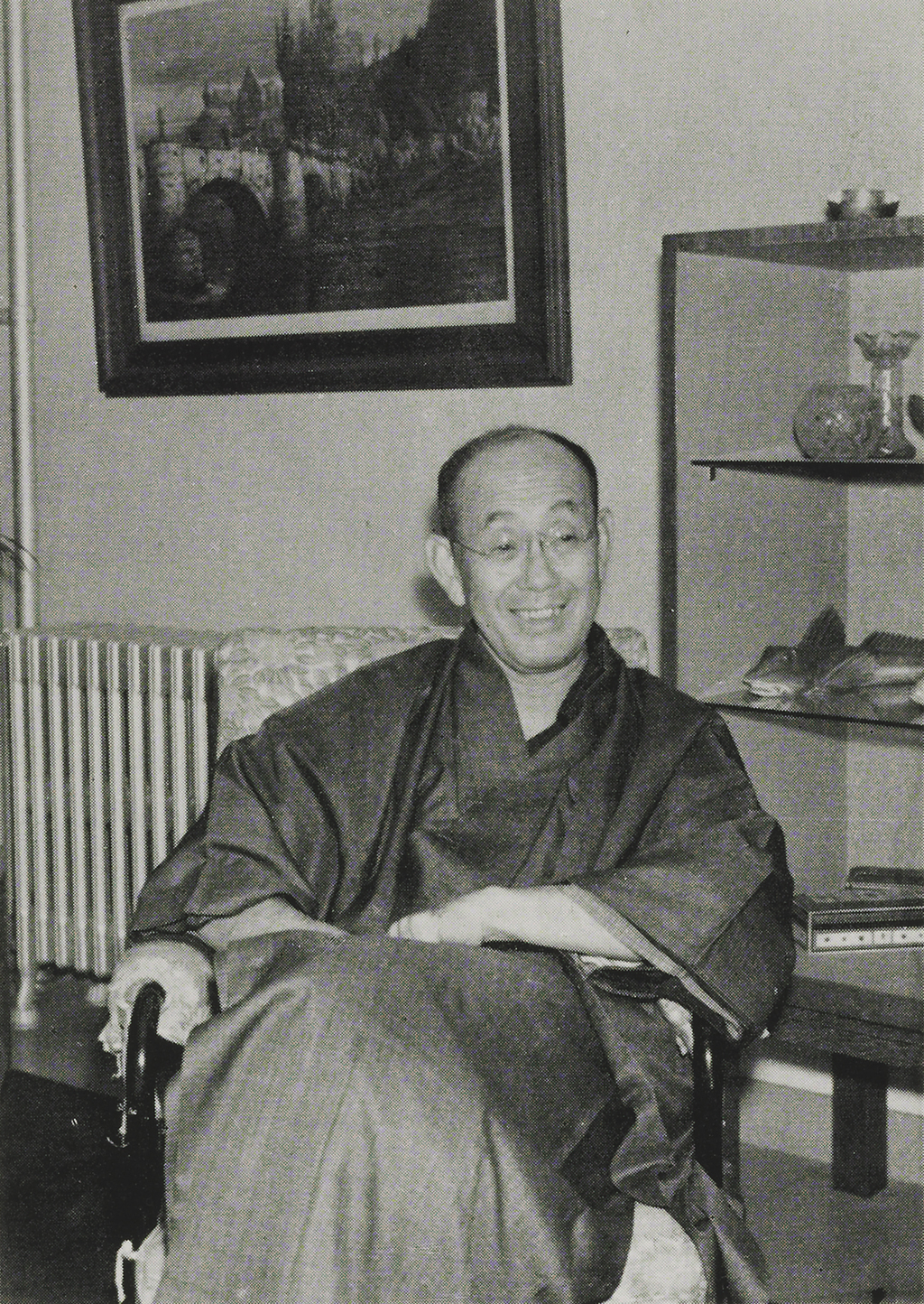 Portrait of Yoshino Shinji (吉野信次, 1888 – 1971)